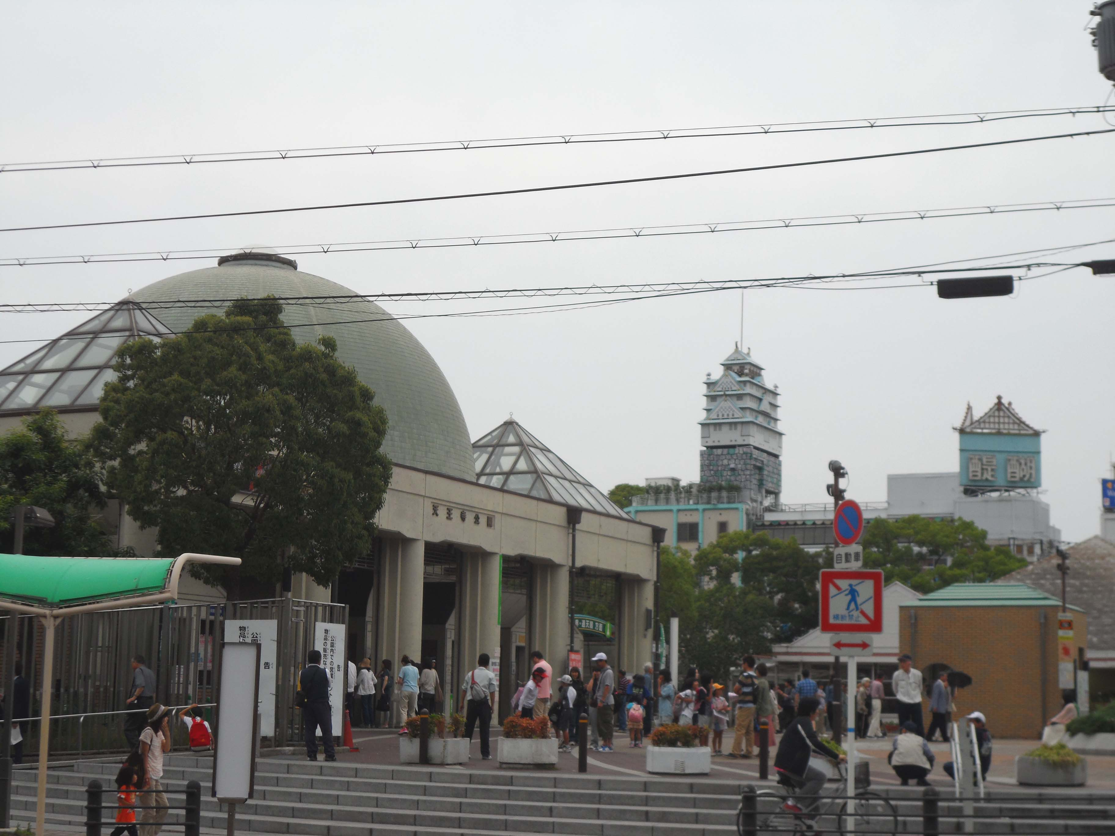 Entrance of Shitennō-ji Zoo, Osaka